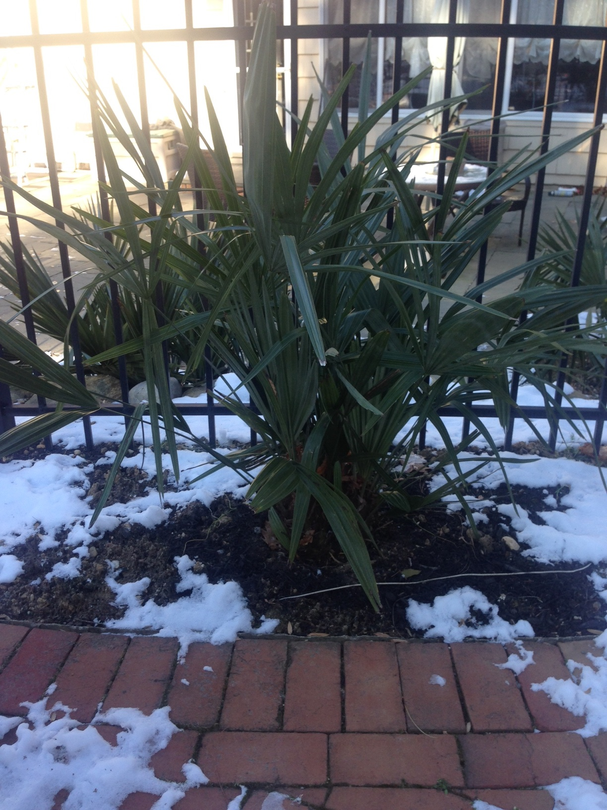 Needle Palm after the Blizzard of 2014 in Roslyn Harbor, NY. Courtesy of Kokomo Trading Company